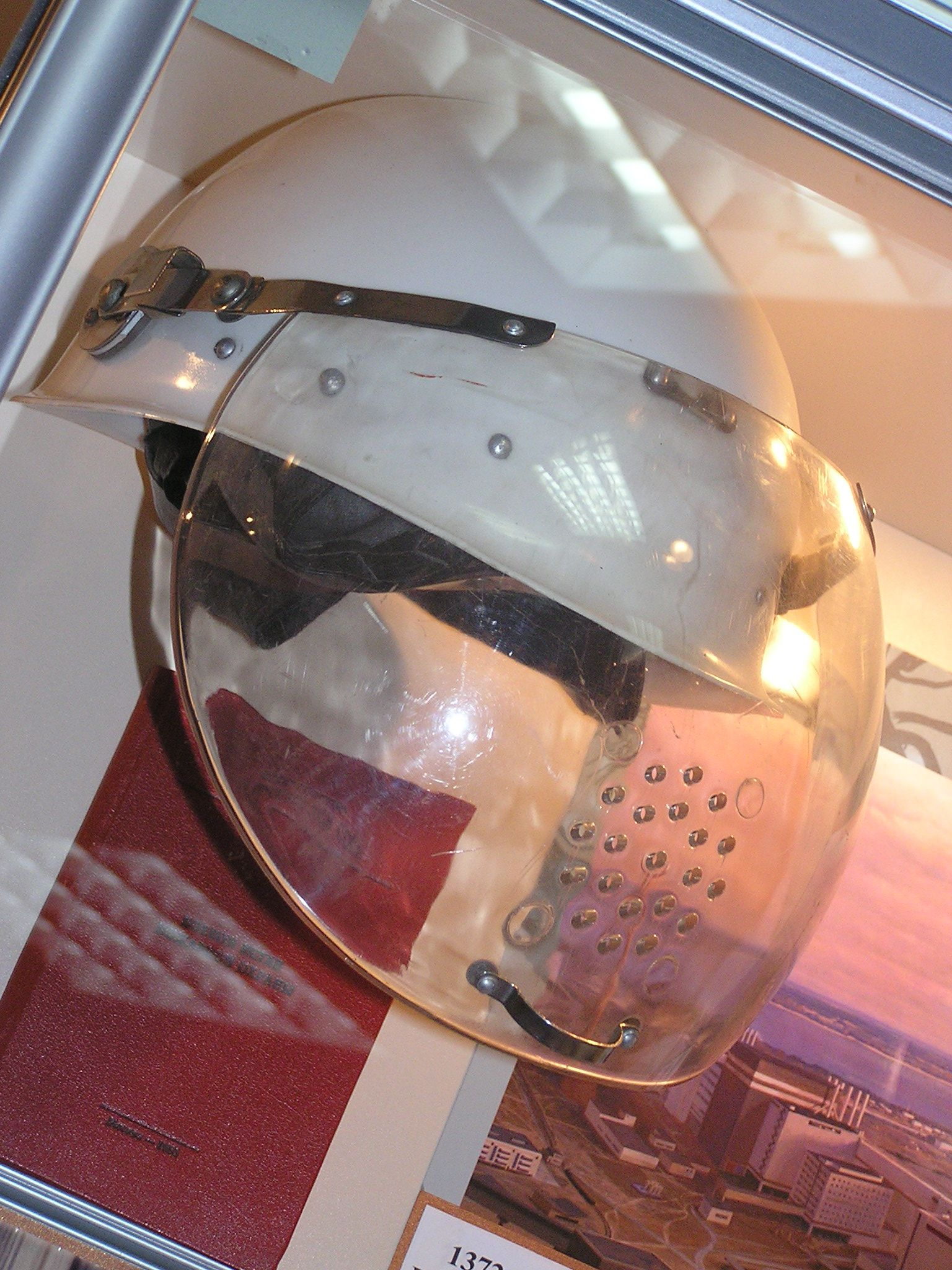 Museum of the History of Donetsk militsiya